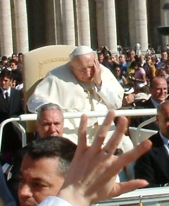 Pope John Paul II during General Audiency, 29 September 2004, St. Peter Sq., Vatican photo by Radomil